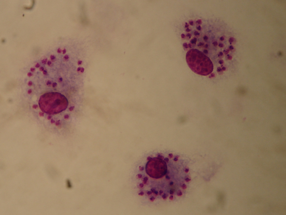 Leishmania tropica amastigotes located intracellularly within mammalian host macrophages.